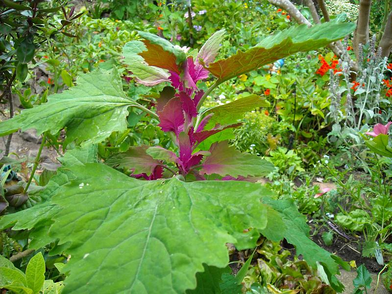 Magenta spreen grows to be over 5' tall. It reseeds, and can be eaten like spinach.